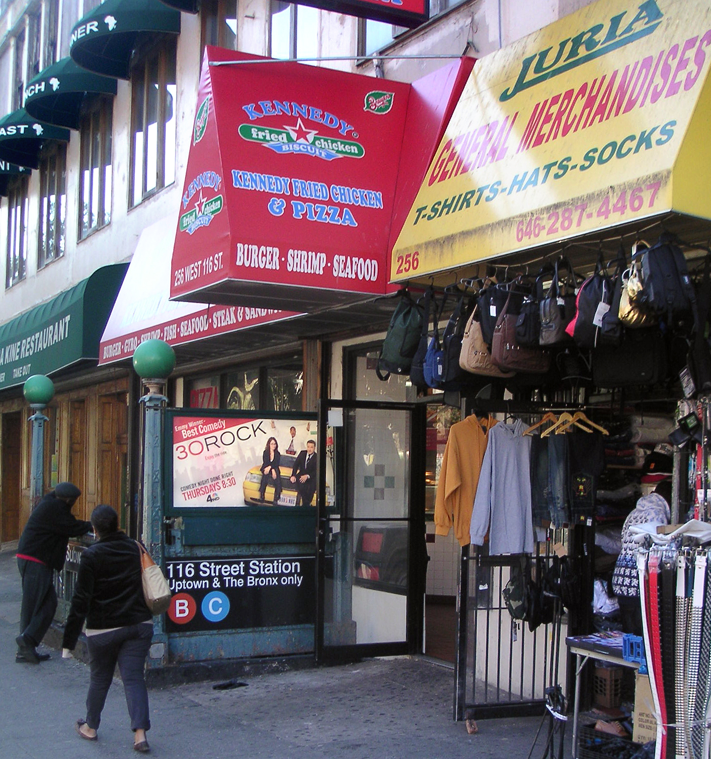 Southeast corner of 116th St. and Eighth Ave. (Frederick Douglass Boulevard) showing 116th St. entrance to the IND Eighth Avenue Line B and C trains. Harlem, New York.